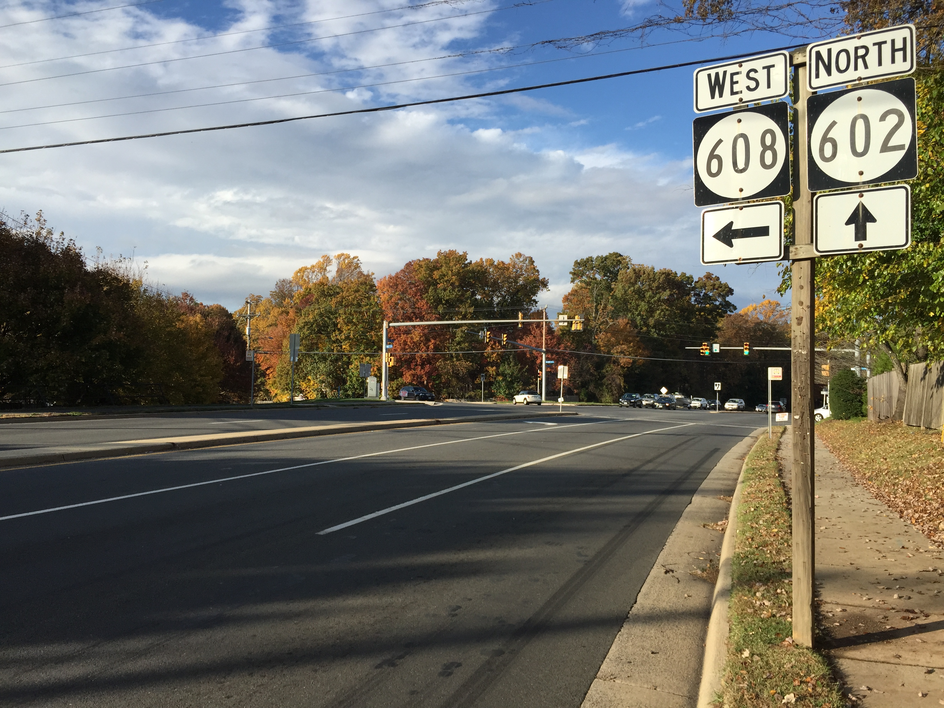 View west along West Ox Road (Virginia State Secondary Route 608) at Lawyers Road (Virginia State Secondary Route 602) and Folkstone Drive (Virginia State Secondary Route 5640) in Oak Hill, Fairfax County, Virginia